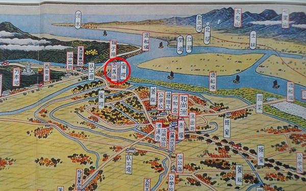 japanese occupation's Lujhou's map